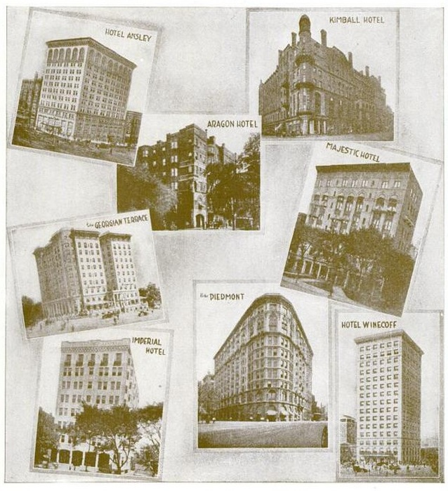 Collage of Atlanta hotels June 1916